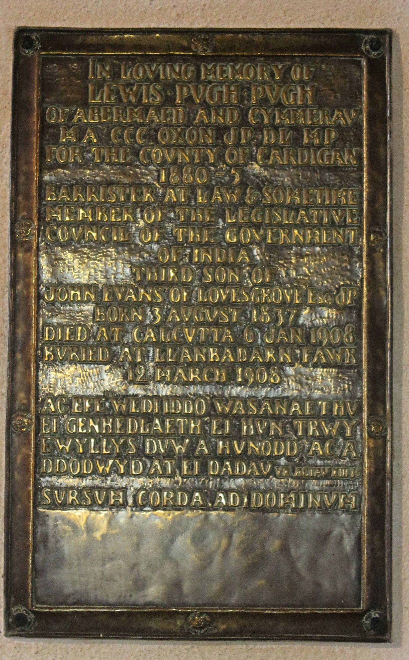 In loving memory of Lewis Pugh Pugh of Abermaid and Cymerau Barrister at Law...third son of John Evans of Lovesgrove; born 3 August 1837, died at Calutta; 6 January 1908. The Church o St Ilar ('st ilar'; old incorrect name, kept only as historic record is St Hilary's Church). Grade II* listed building.